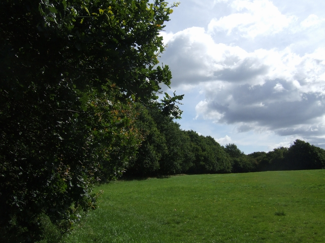 Oak trees in the Rough Wood Local Nature Reserve It is claimed that the Rough Wood Nature Reserve contains 10% of the oak woodland in the old West Midlands County. It is certainly an impressive block of oak woodland.